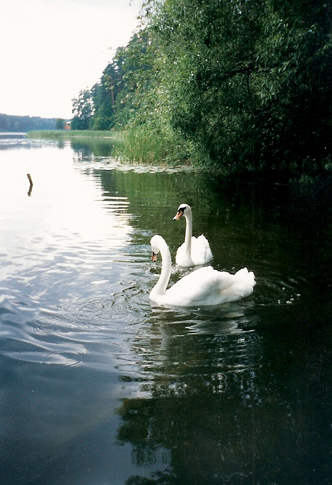 Lake Pomorze, Poland